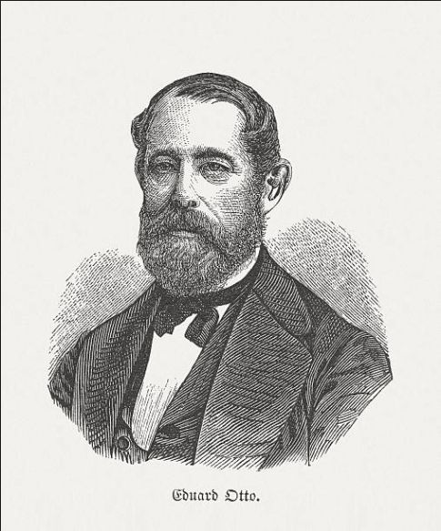 Carl Friedrich Eduard Otto (1812–1885), German botanist. Woodcut engraving from the book 'Gartenbau-Lexikon (Encyclopedia of Horticulture)' by Th. Rümpler. Published by Paul Parey, Berlin (1882)